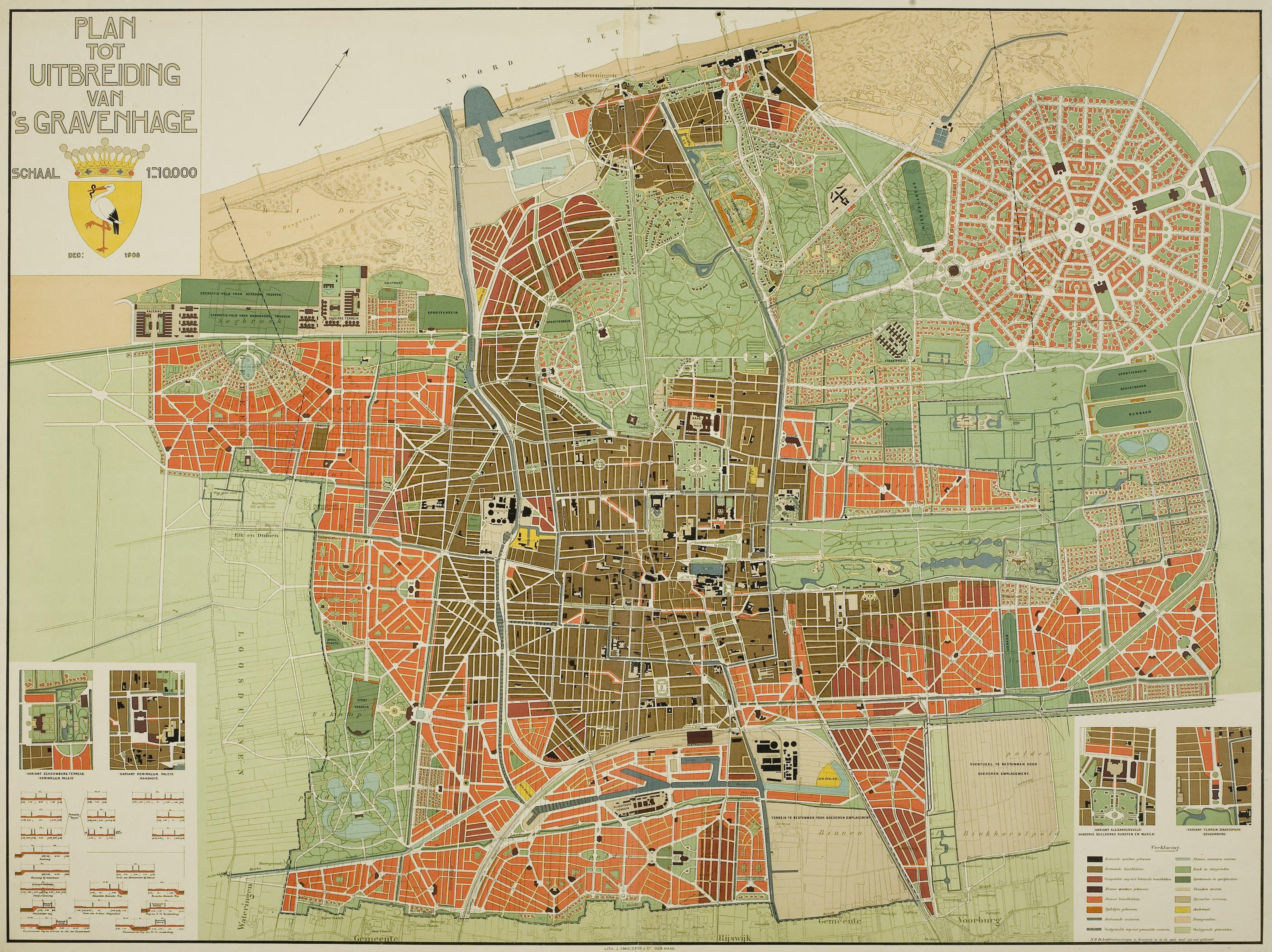 Map of The Hague of 1908 on which shown the urban development plan designed by architect Hendrik Berlage.